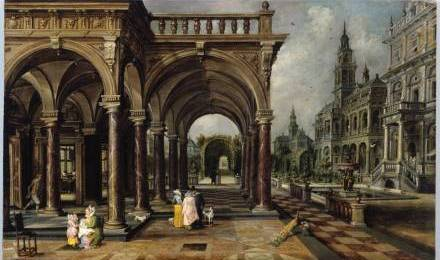 Paul Vredeman de Vries and Jan I Brueghel - Buildings and gardens, oil on canvas, 41 cm x 68 cm. Musée des Beaux-Arts de Strasbourg